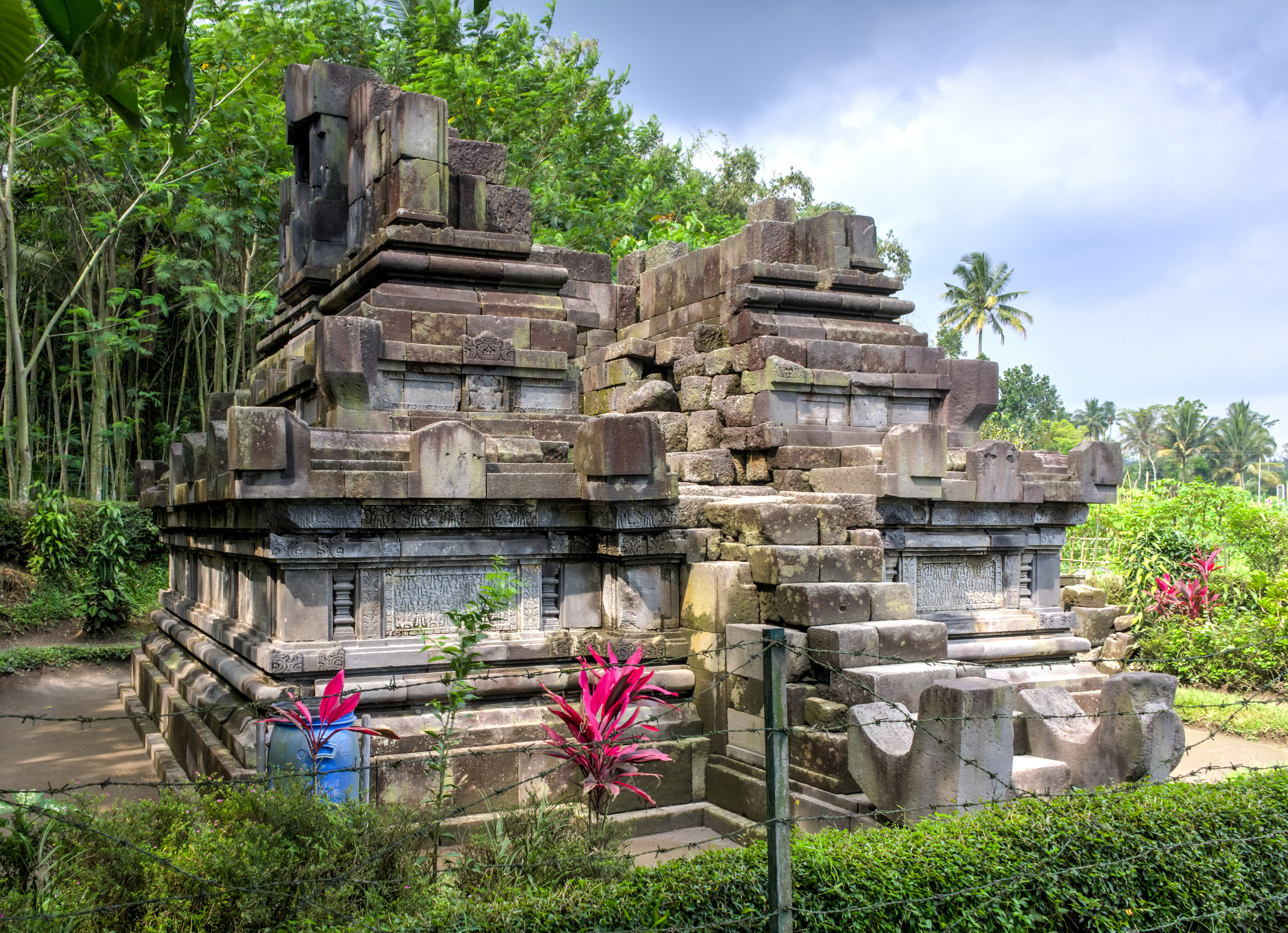 Asu Temple, Sengi, 2014-06-20 (01)